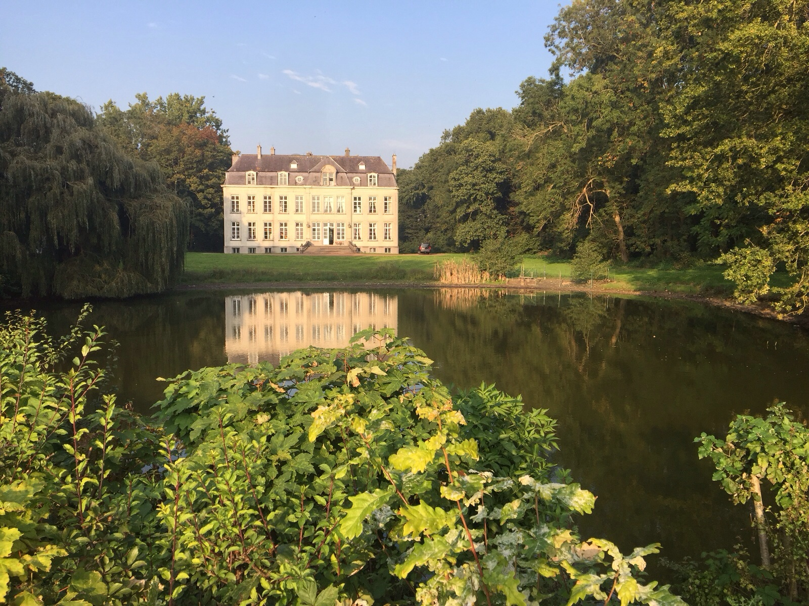 Castle of Boezinge, from 2015